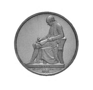 Medal of James Watt, illustration in Life of Watt (1858) by James Patrick Muirhead.